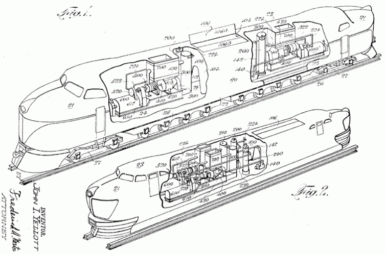 US Patent sketch of pulverized coal burning locomotive